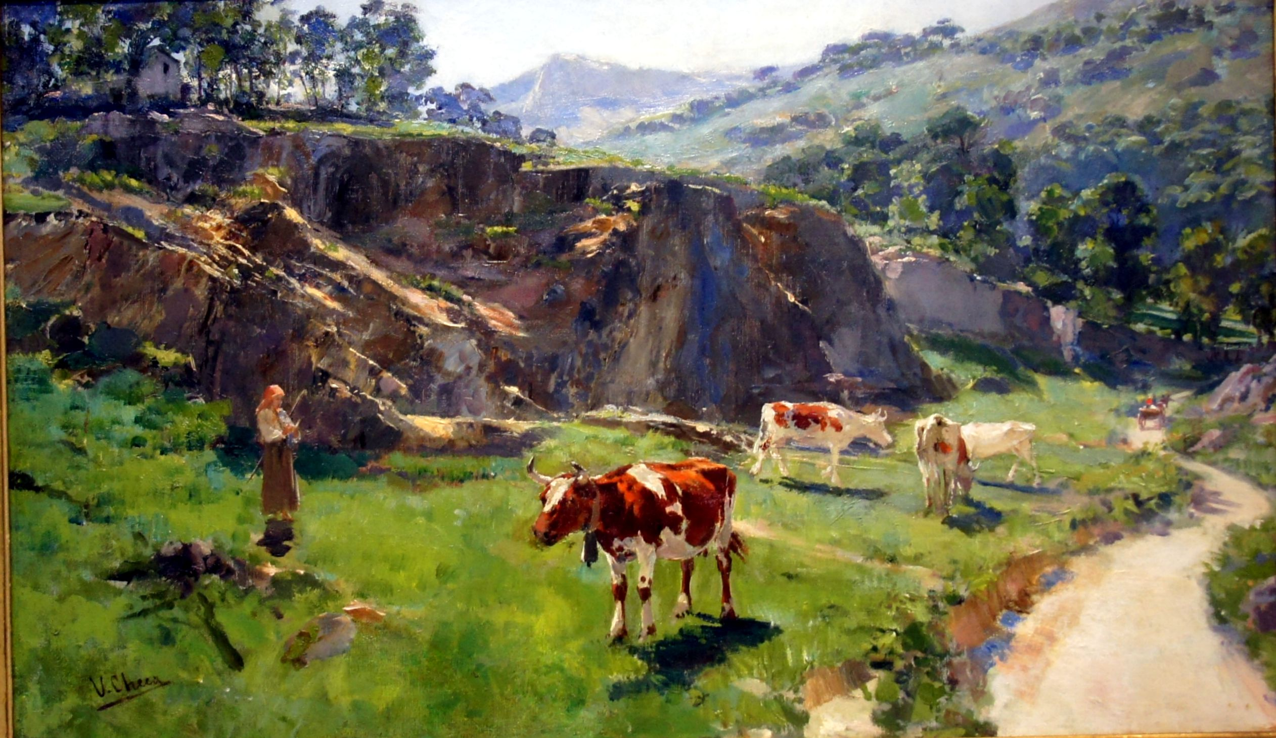 The valley of cows, oil on canvas, 43 x 71 cm. Signed in the lower left corner.